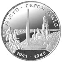 Coin of Ukraine